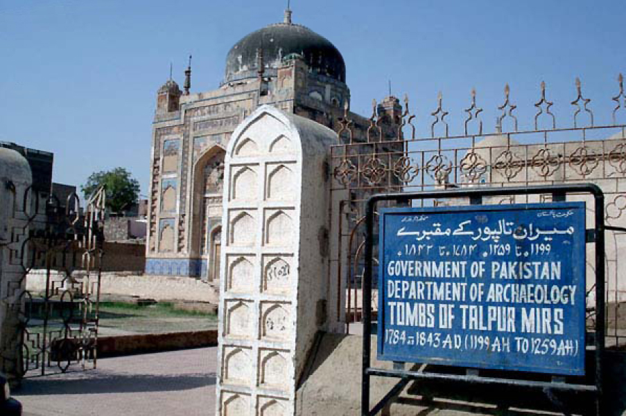 The image shows the entrance to the tombs of the Talpur Mirs located in the neighbourhood of Hirabad in Hyderabad.